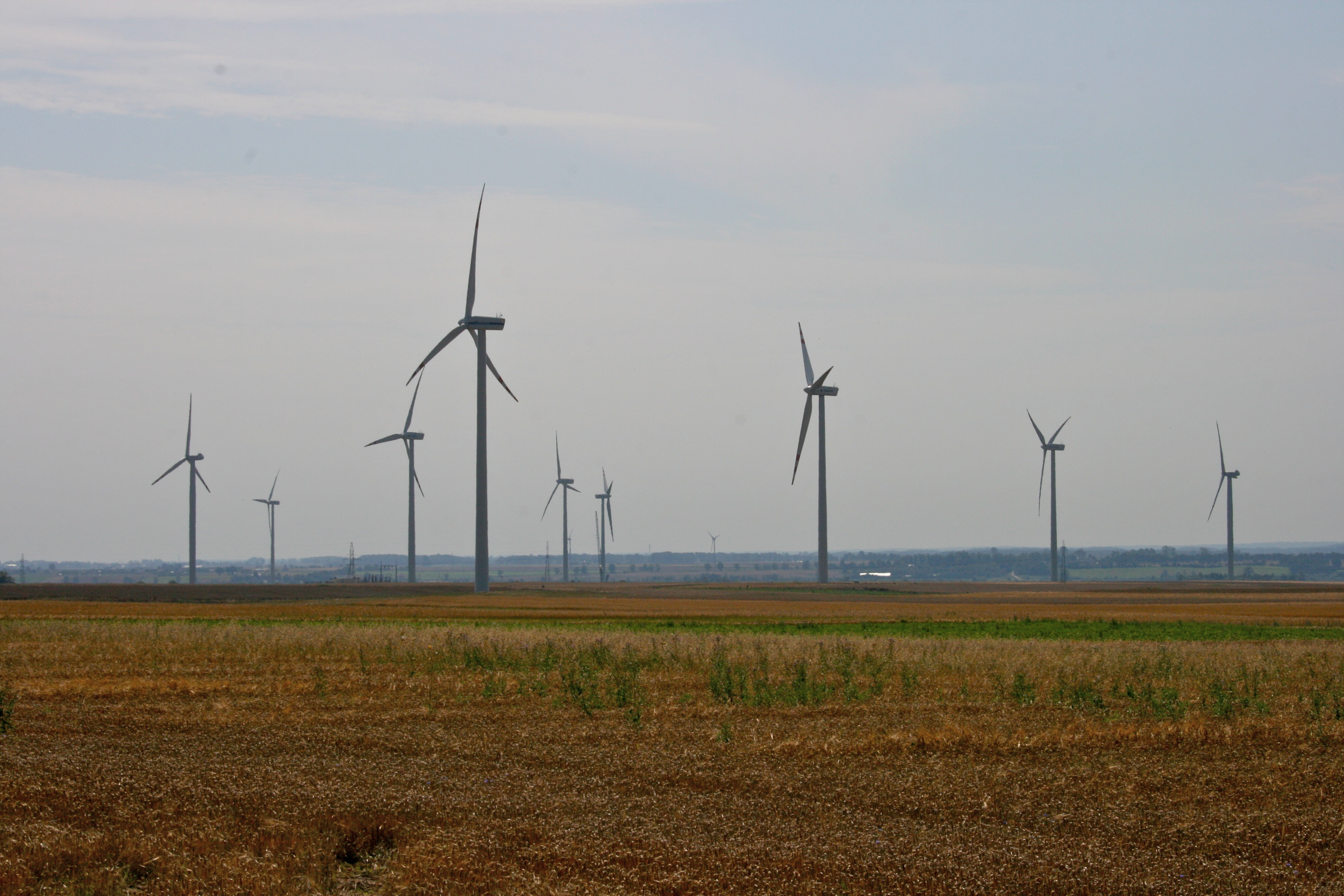 Wind turbines at Lisewo, Pomeranian Voivodeship